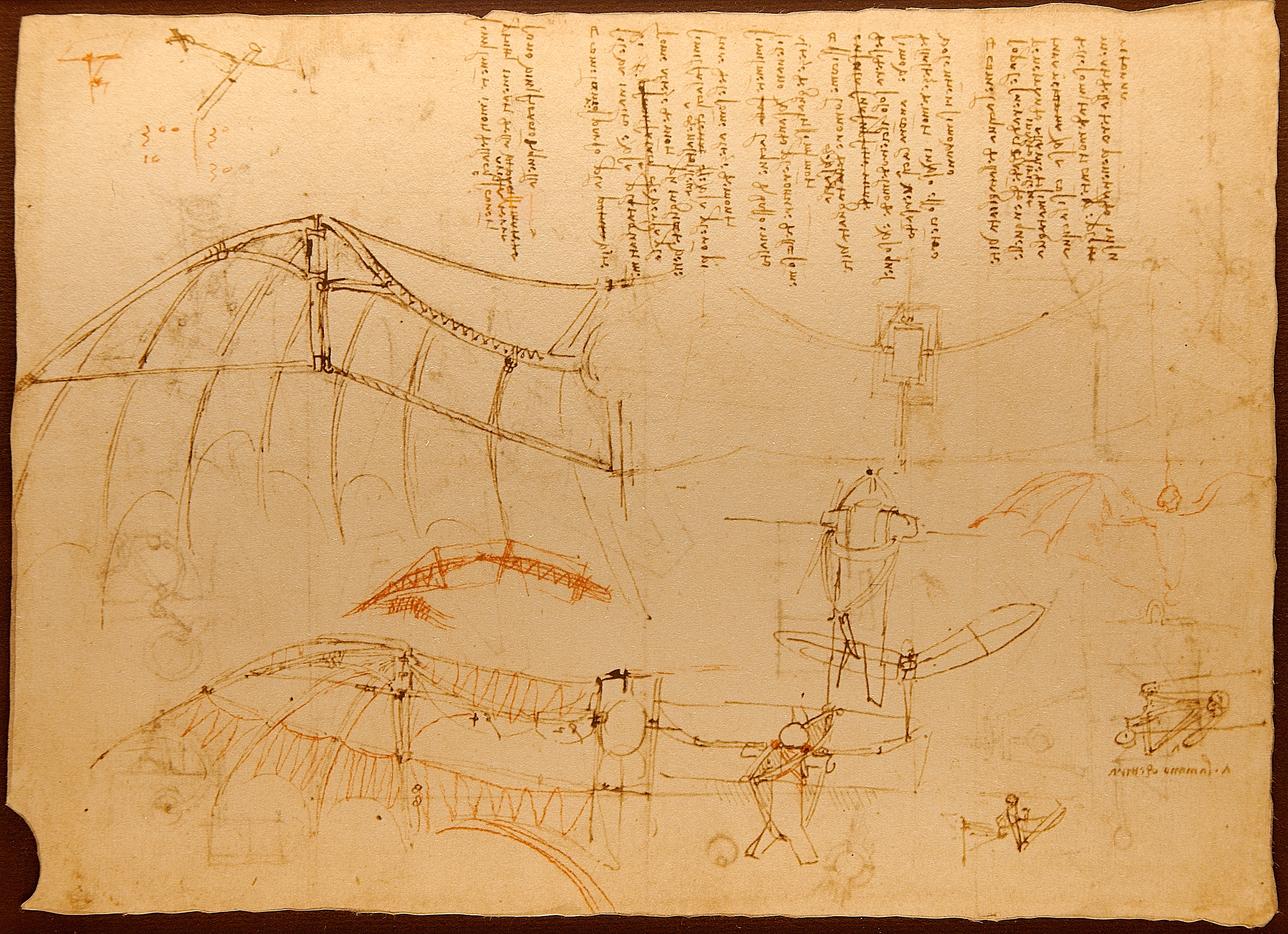 Design for a flying machine Codex Atlanticus f.858r is a drawing by Leonardo da Vinci.